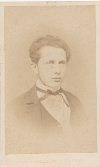 Bror Berlin (1849-1914), Swedish wholesaler; owner of the company Bror Berlin & Son in Malmö.